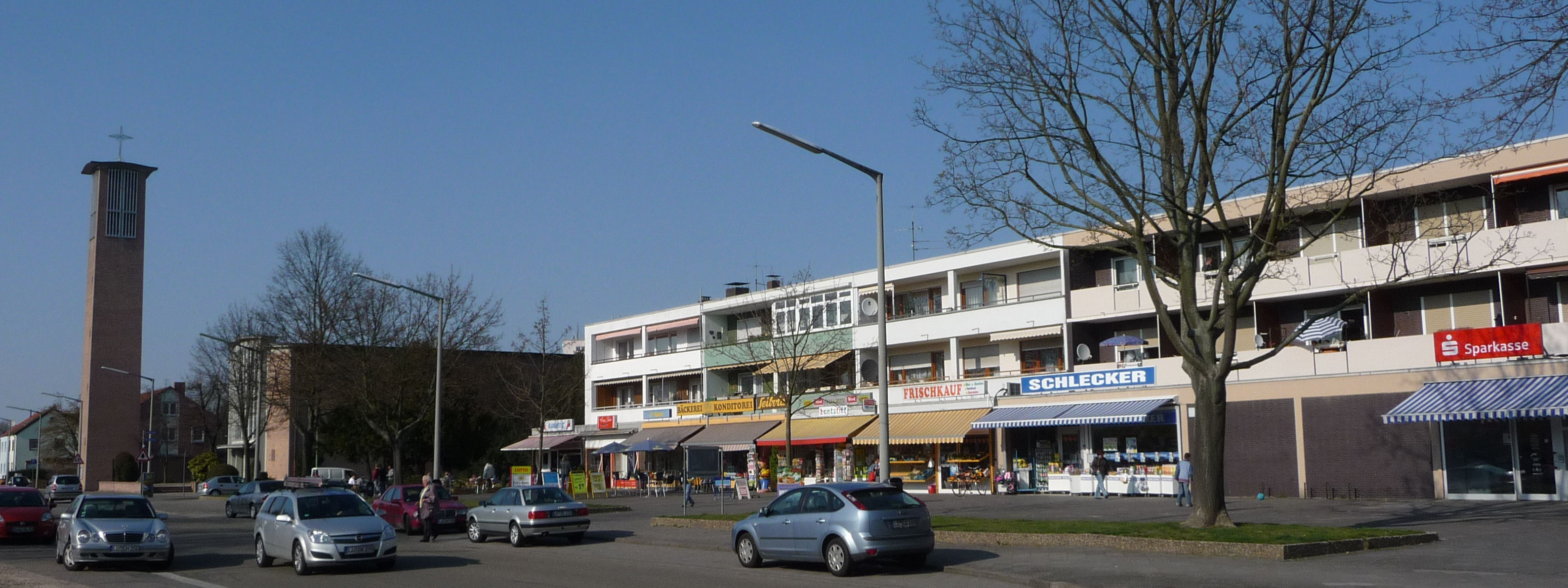 Church in Ludwigshafen, Germany